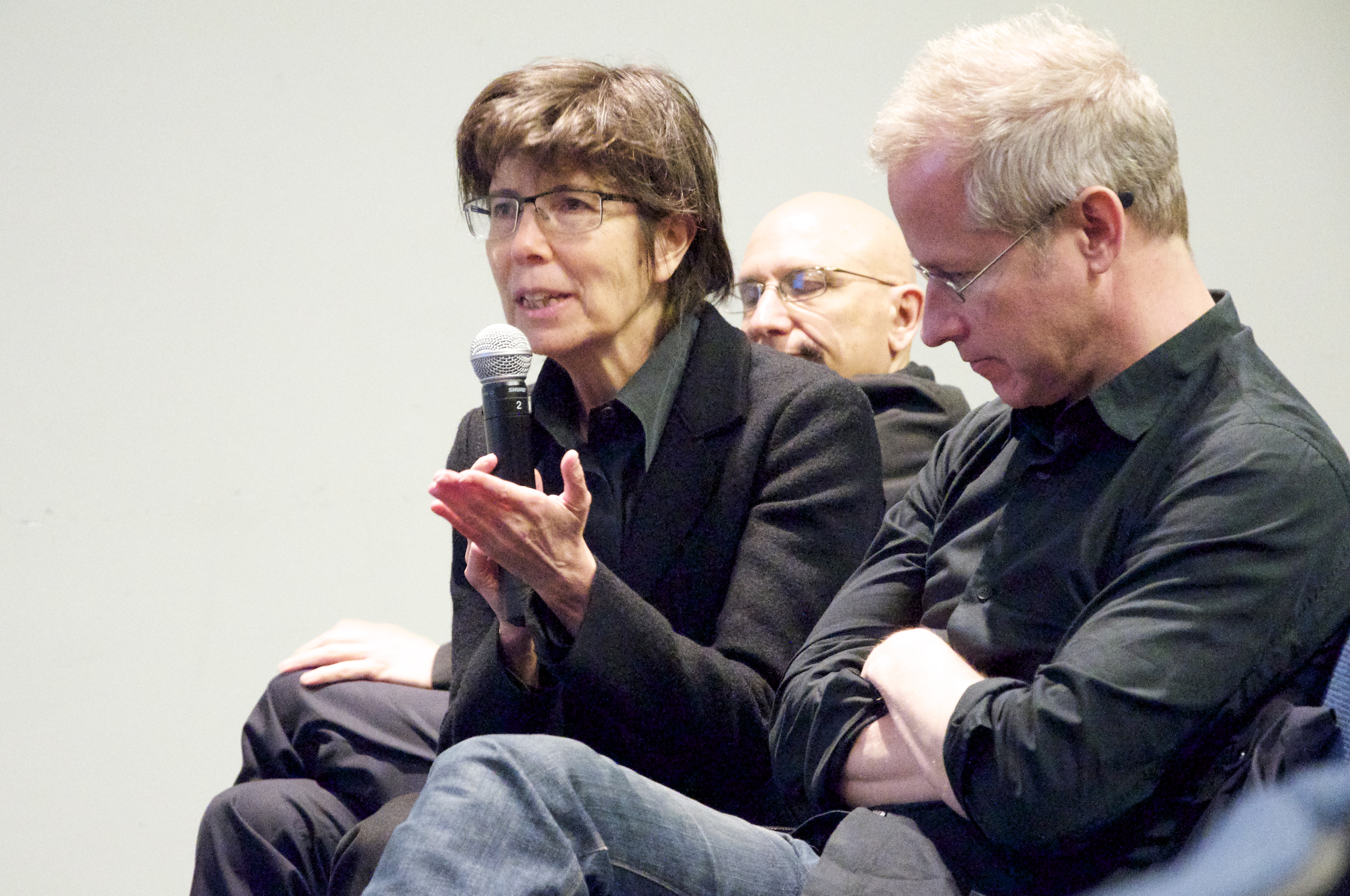 Elizabeth Diller, "Diller Scofidio + Renfro: Architecture After Images" Book Launch and Discussion